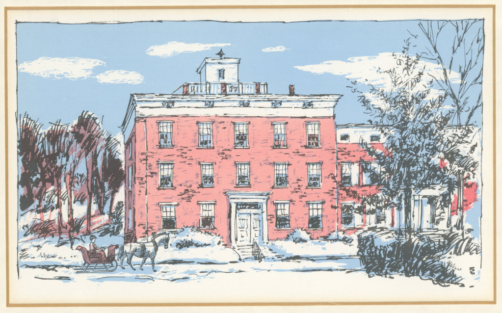 Drawing of The Susquehanna Female College by John D. Sheppard, circa 1859. It is now Selinsgrove Hall in Susquehanna University.